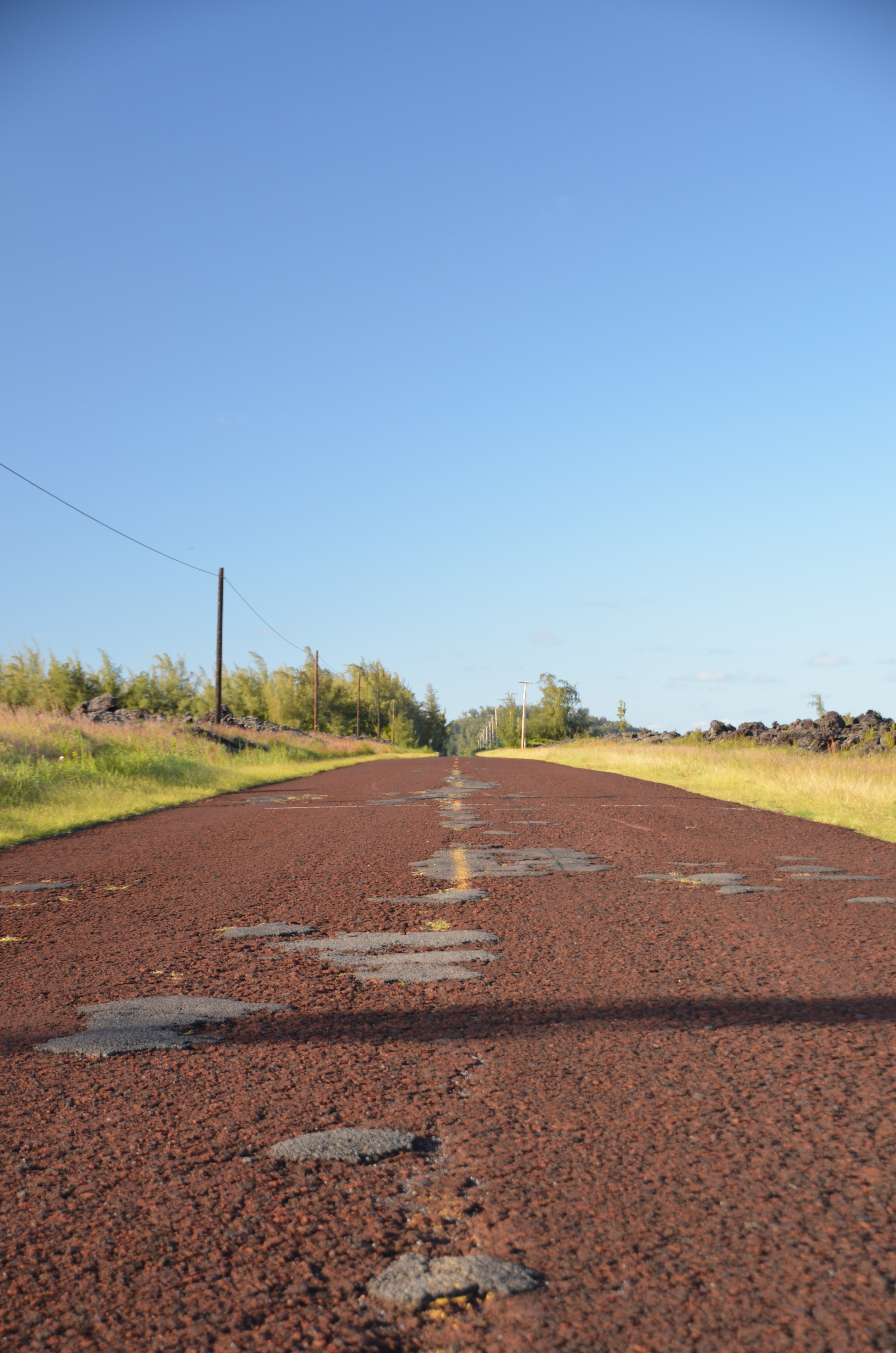 The Red Road in 2012; the area was covered by lava in 2018 (cf. OpenStreetMap)